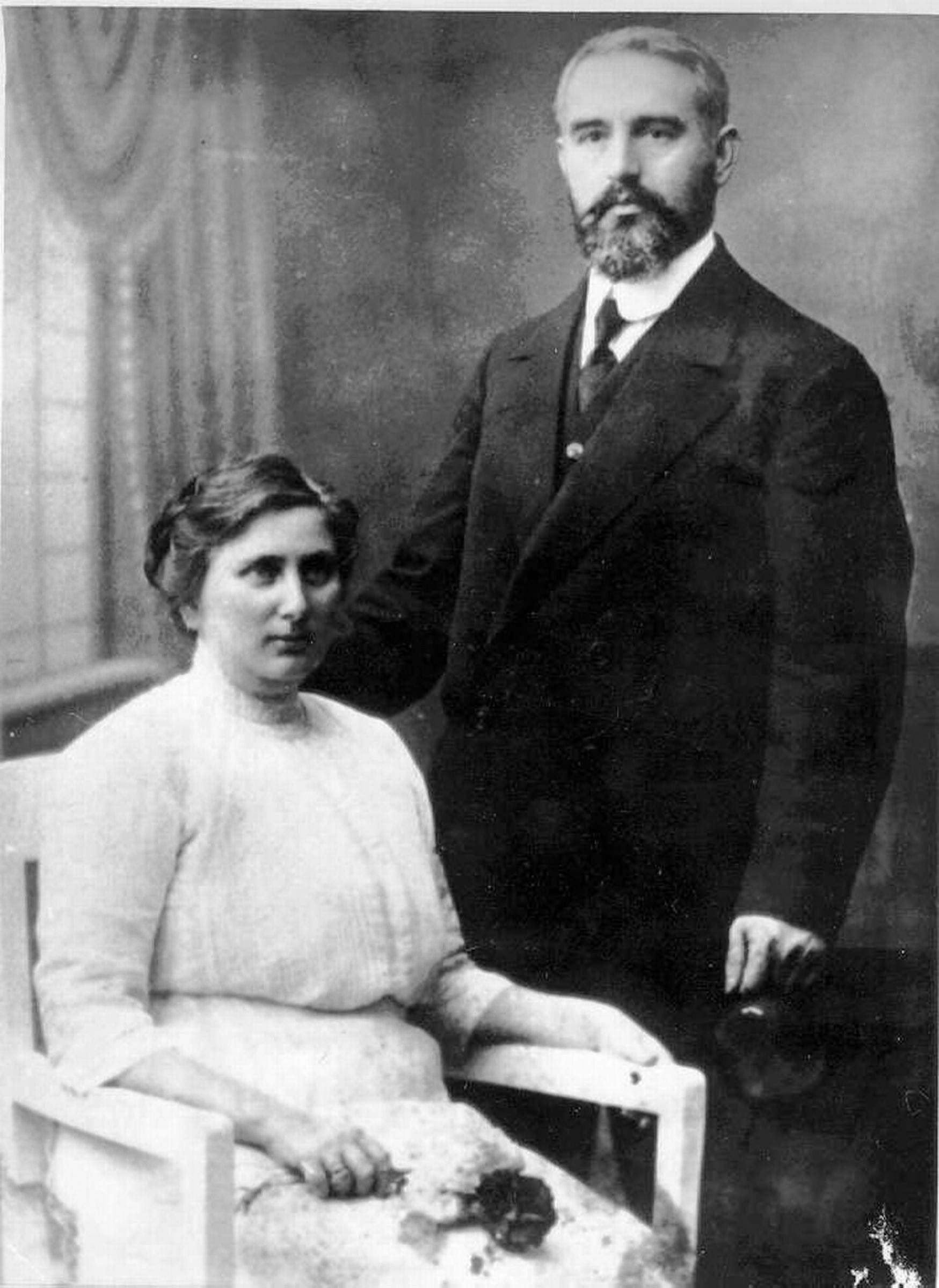 Joshua Buchmil with his wife, Shoshana, in Jerusalem